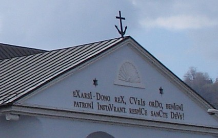 Chronogram at Holy Spirit Church in Požega, Croatia